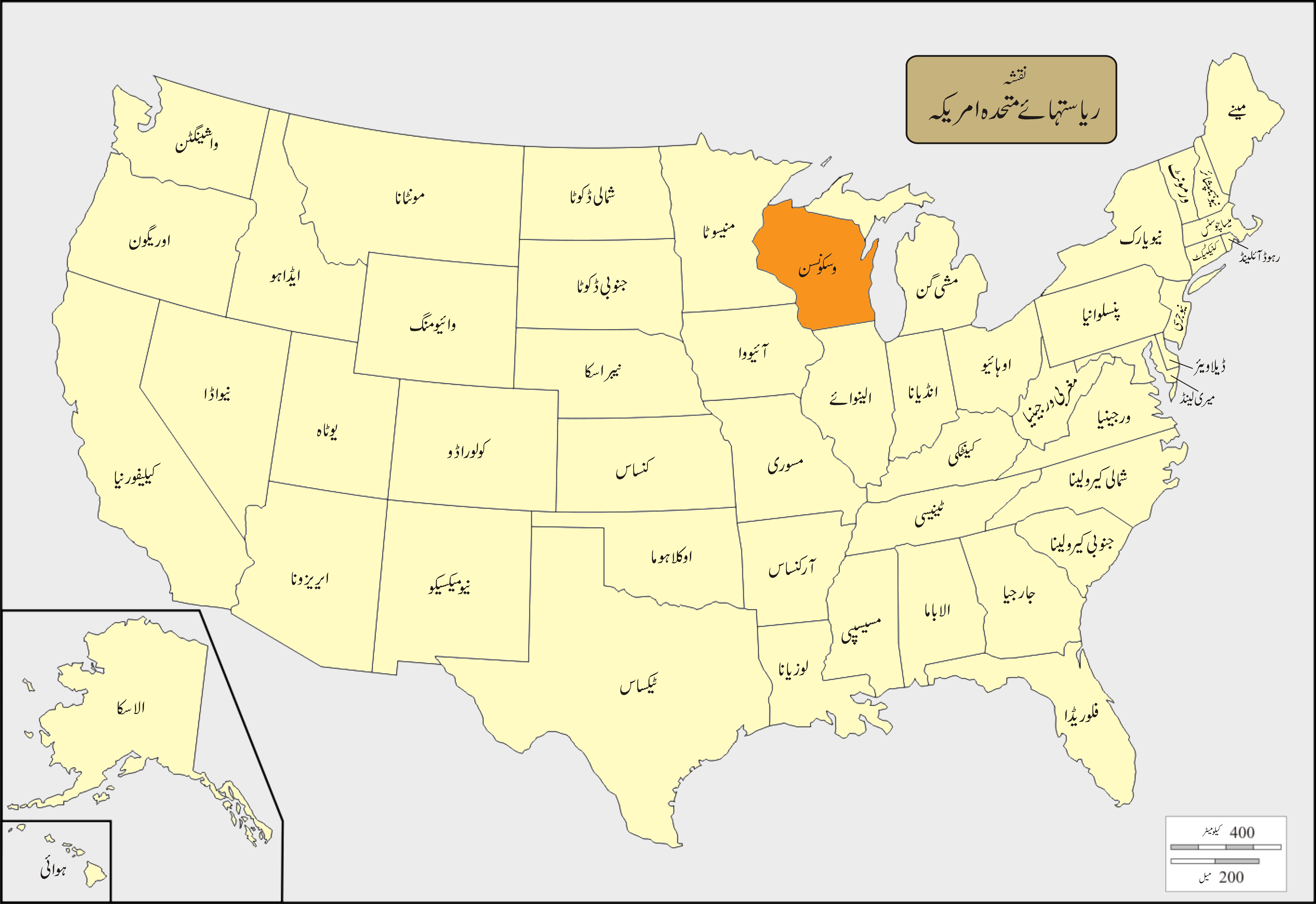 USA Names Wisconsin